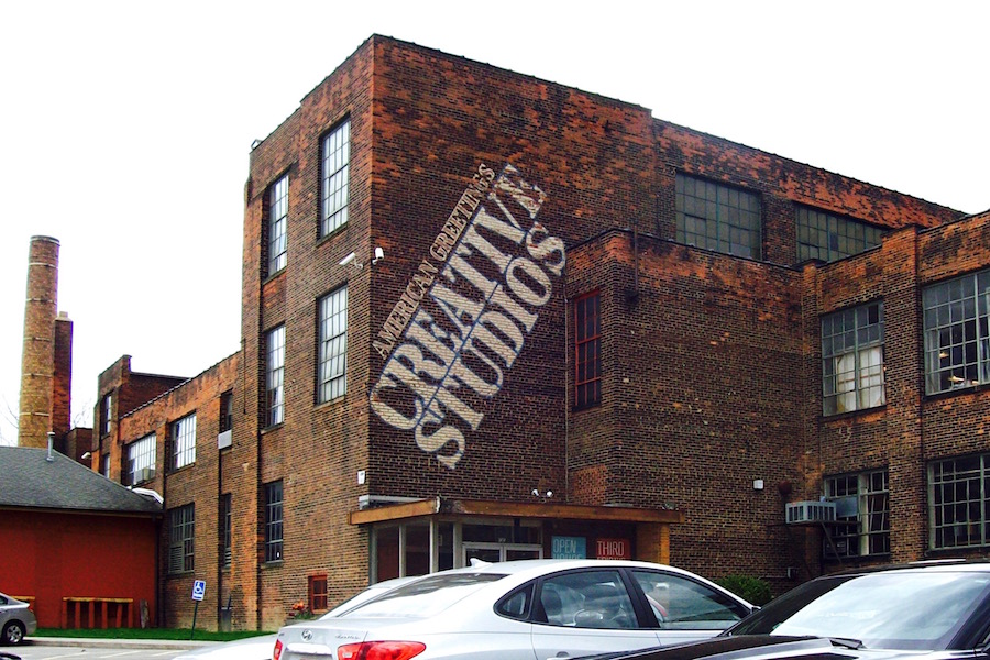 78th Street Studios fine arts complex, located in Detroit-Shoreway neighborhood of Cleveland, Ohio, United States